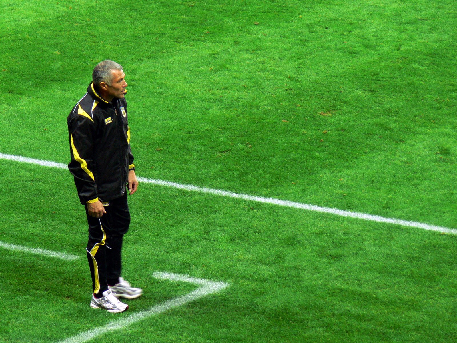 Photo of FC Nantes Atlantique former coach Georges Eo